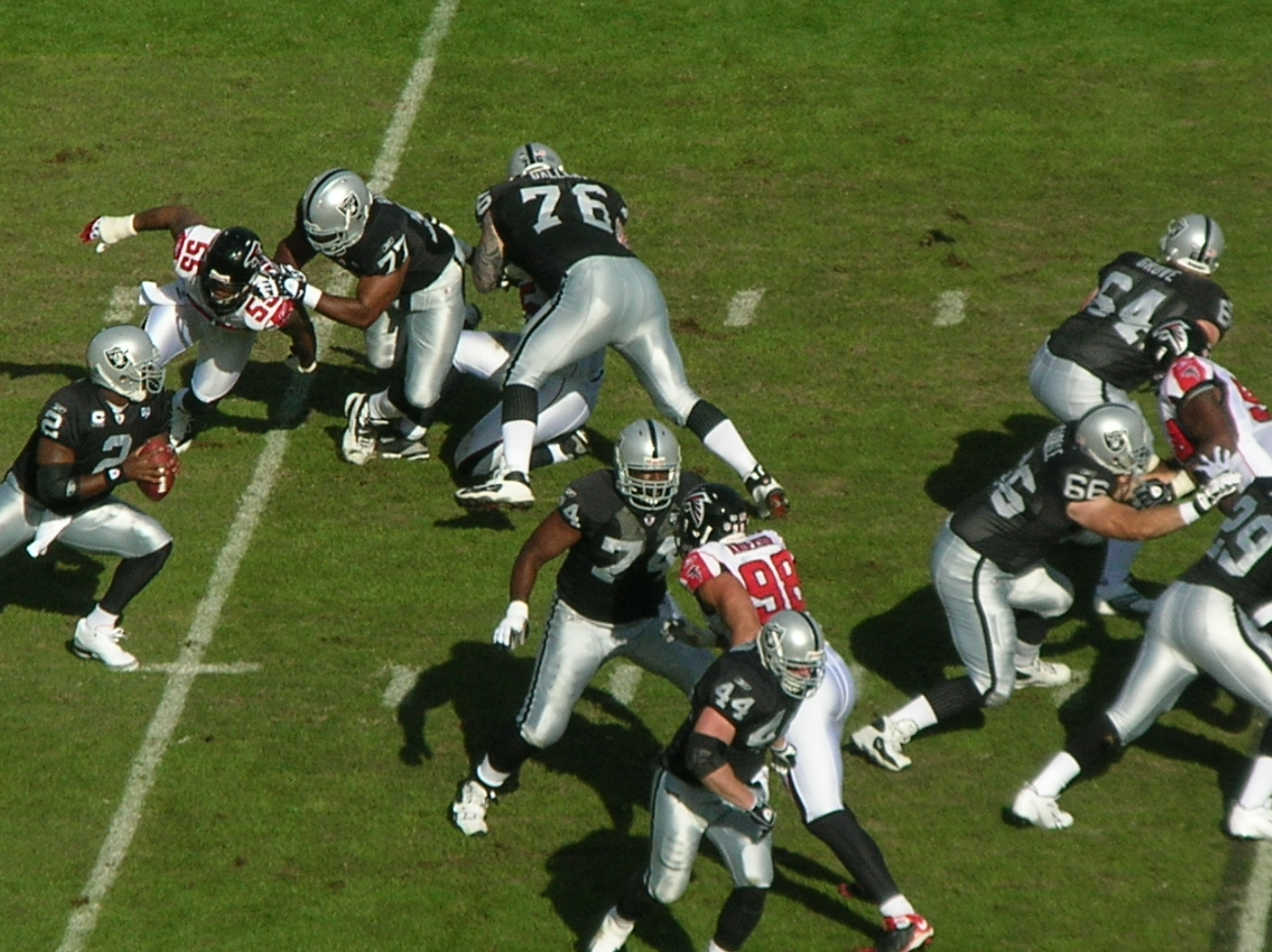 The Oakland Raiders on offense during a home game against the Atlanta Falcons. The Falcons won 24-0.